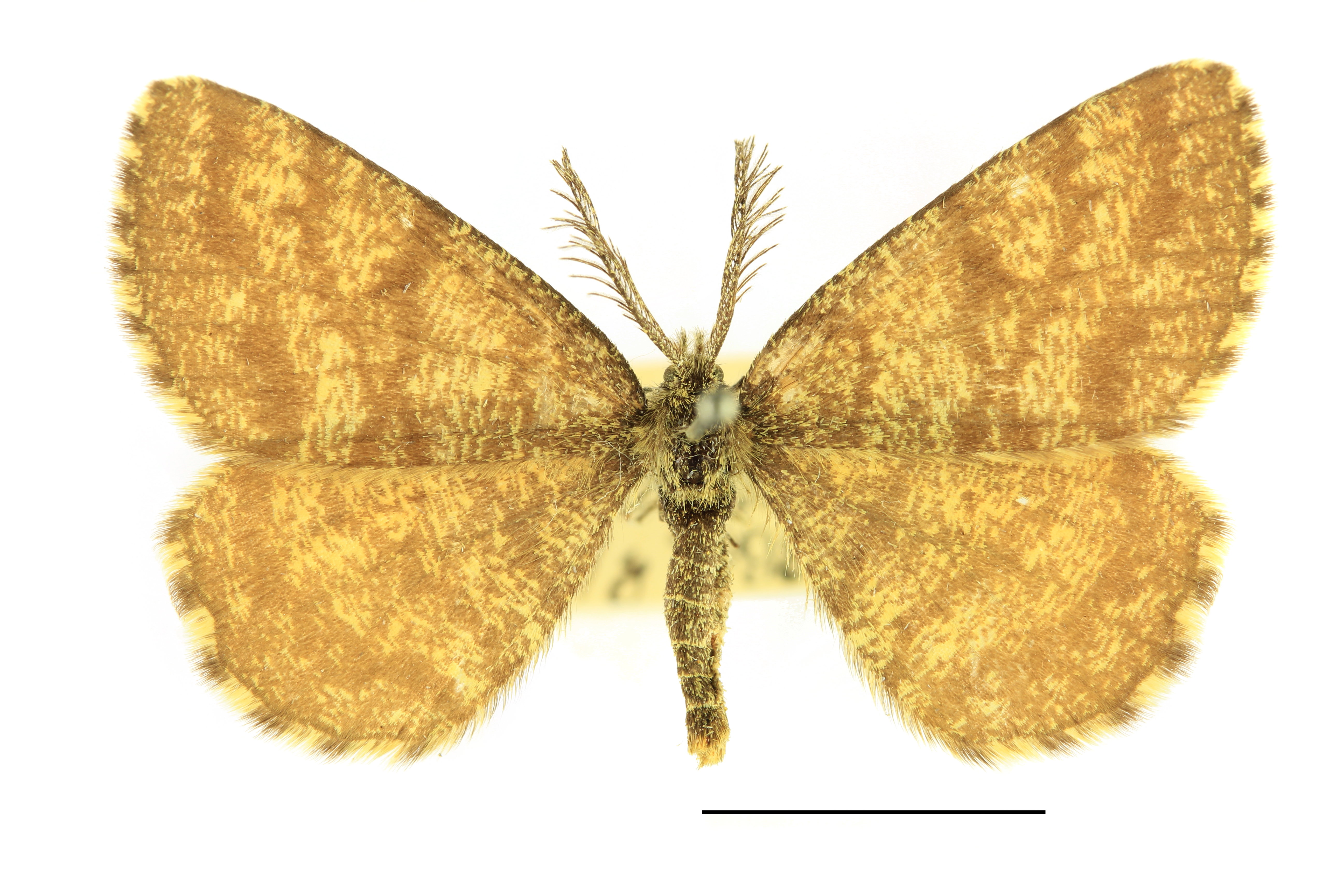 Ematurga atomaria male, insect collections SLU, Uppsala